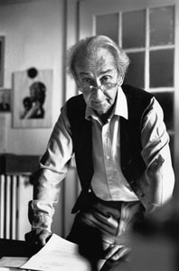 Edmond Kaiser